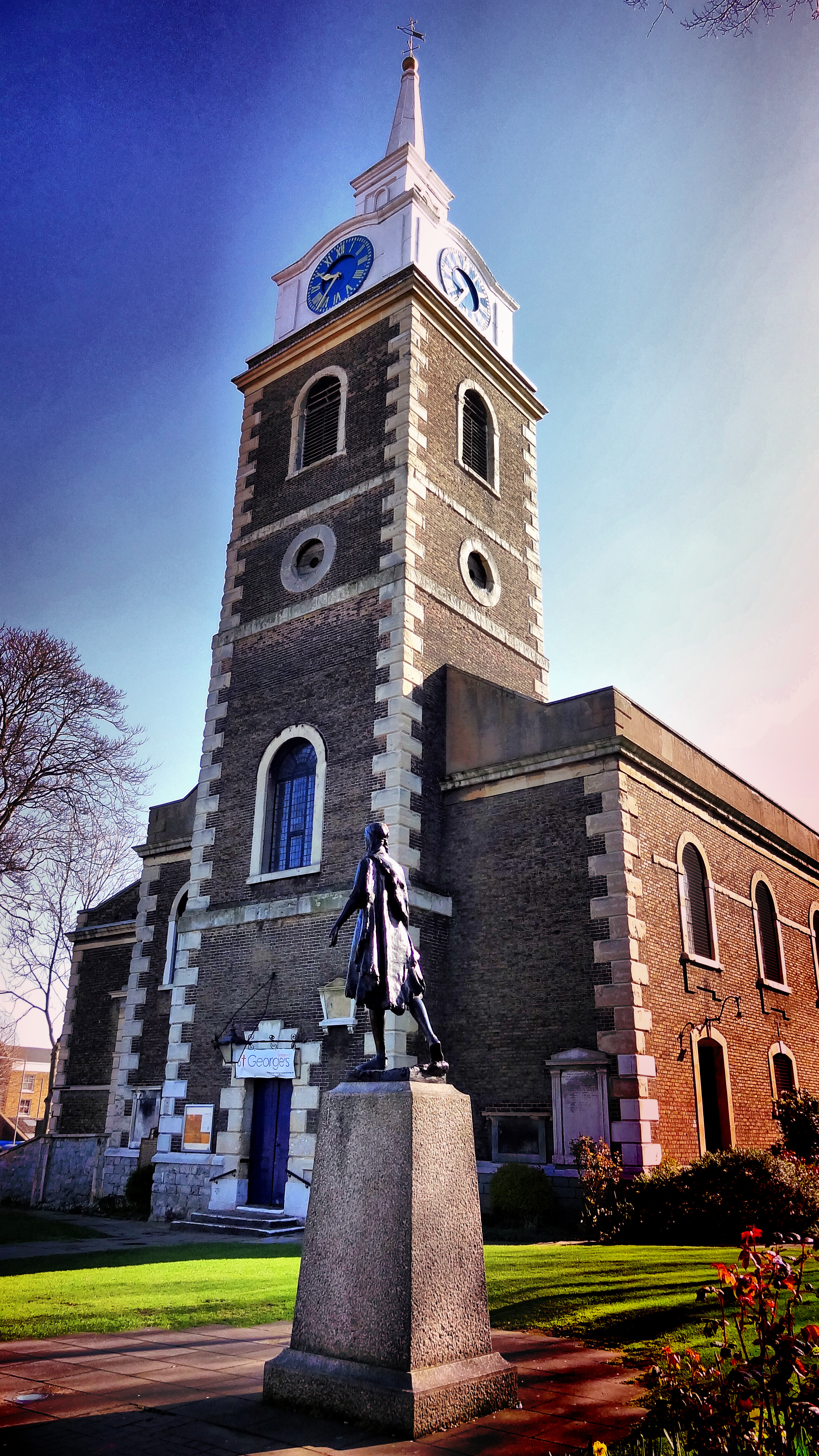 St Georges Church and Pocahontas Statue